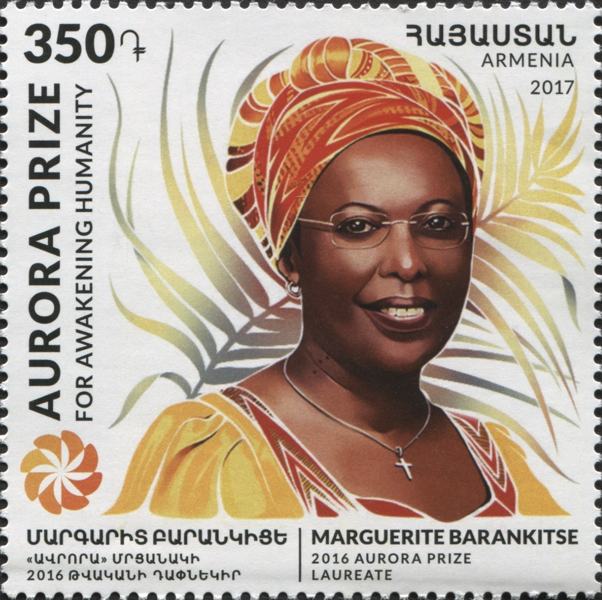 Aurora Humanitarian Initiative - Laureates of 'Aurora' prize - Marguerite Barankitse